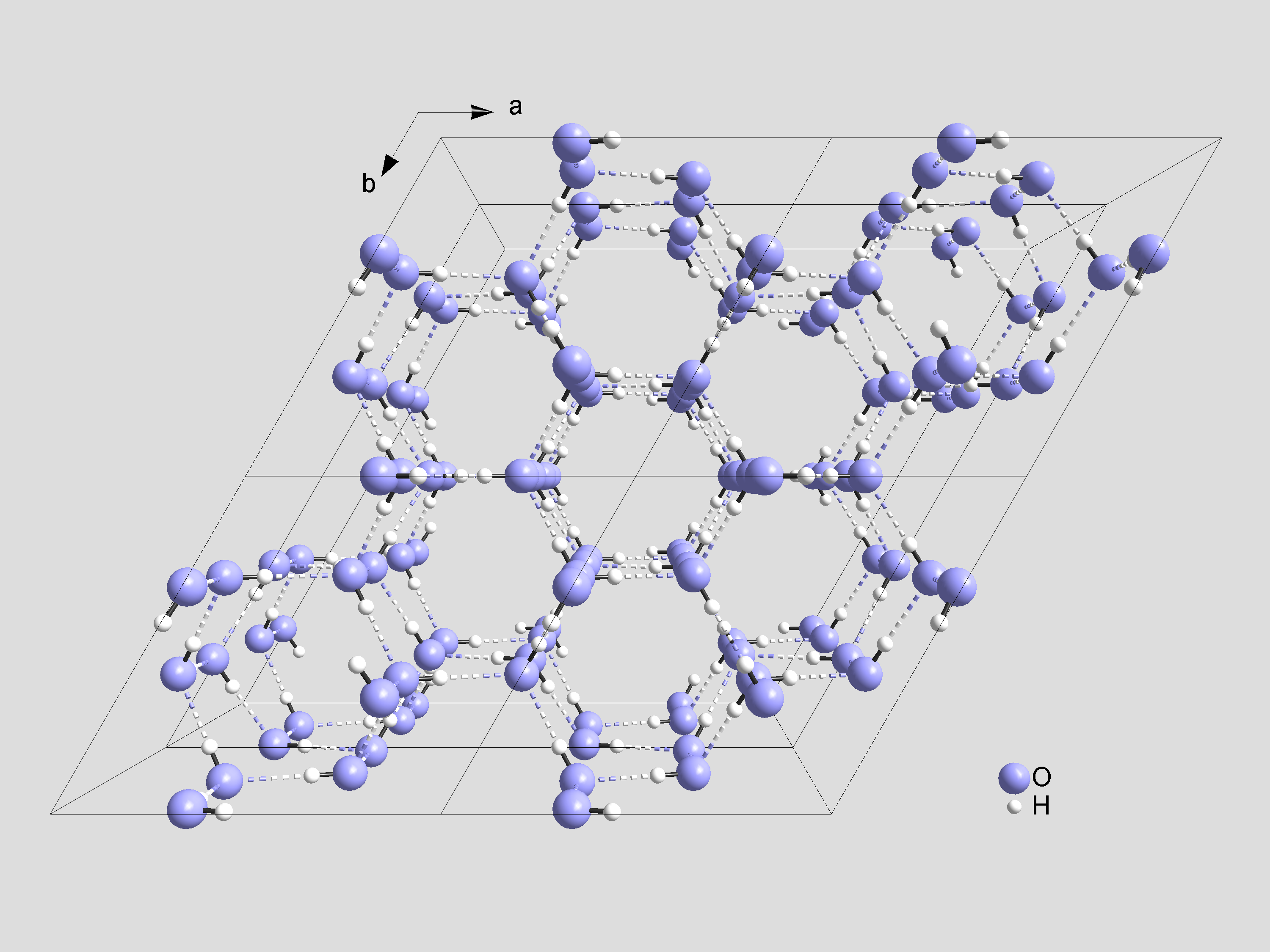 Crystal structure of ice viewed along [001]